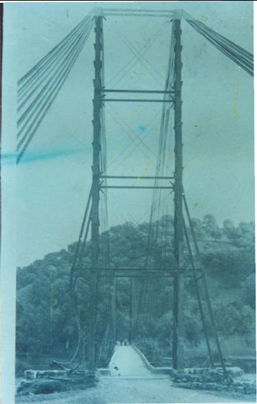 Charle Pridge in Lakhdaria